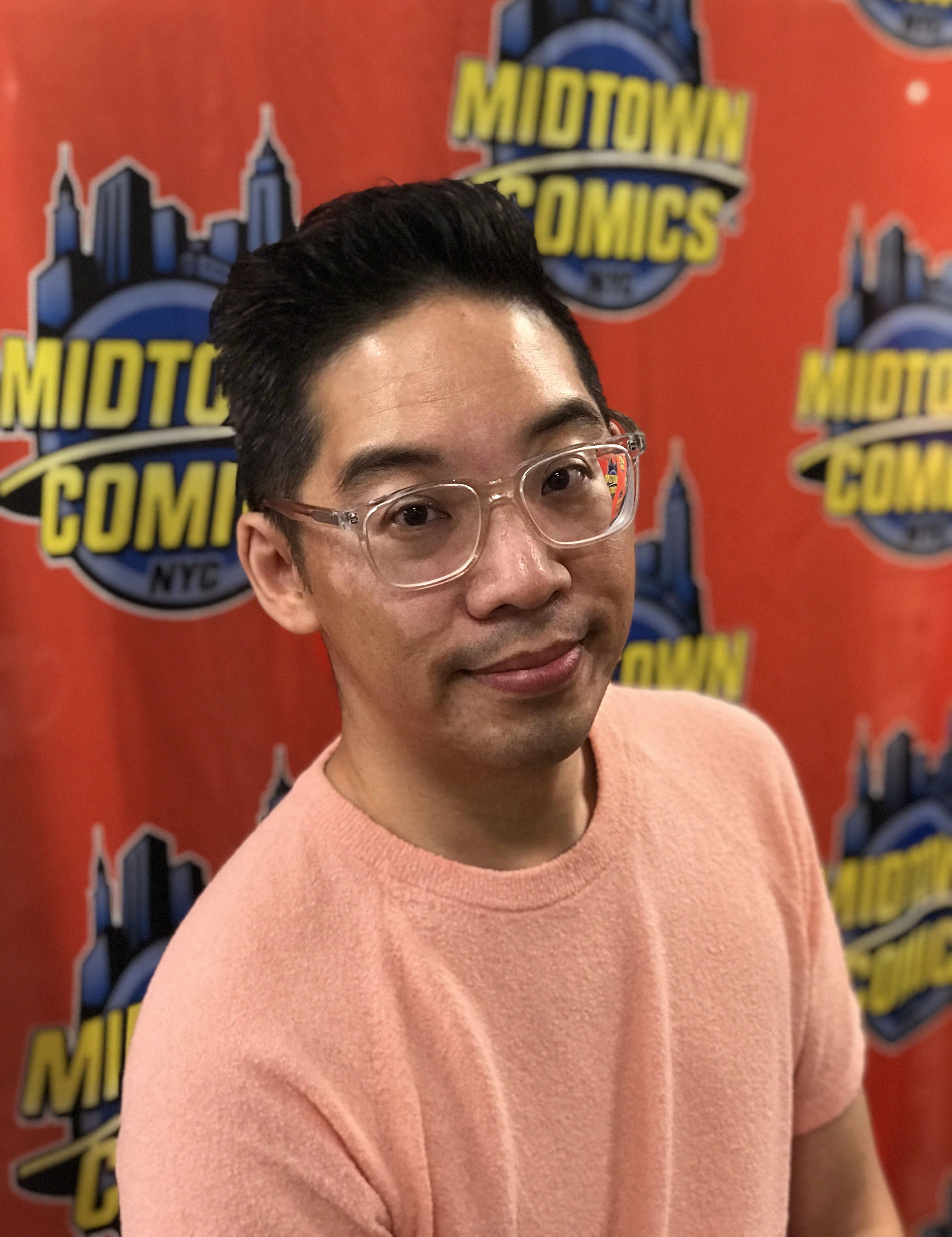 Comics artist Cliff Chiang at an August 1, 2019 book signing for Paper Girls #30 (July 2019), the final issue of that series, at Midtown Comics Downtown in Lower Manhattan. This photo was created by Luigi Novi. It is not in the public domain, and use of this file outside of the licensing terms is a copyright violation.